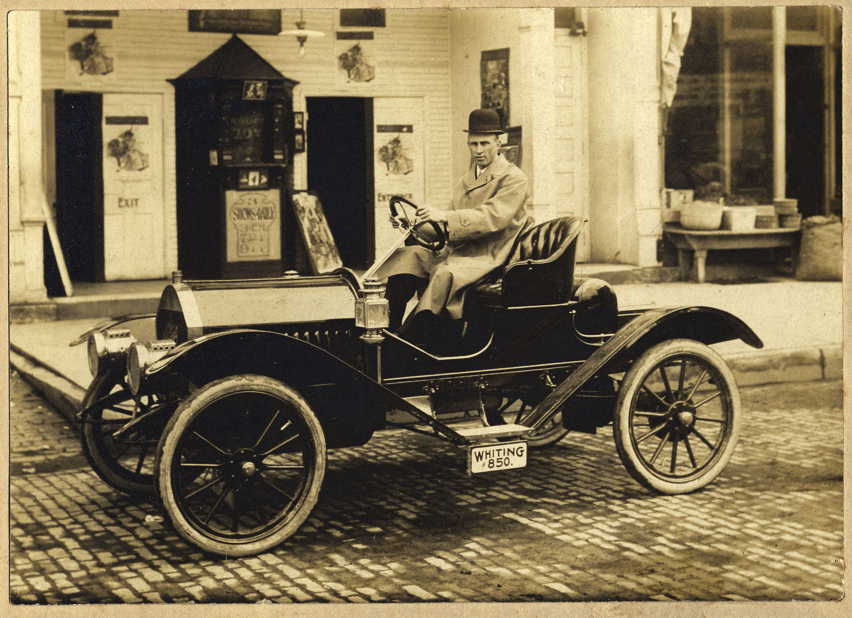 1910 or 1911 Whiting Model A Roadster